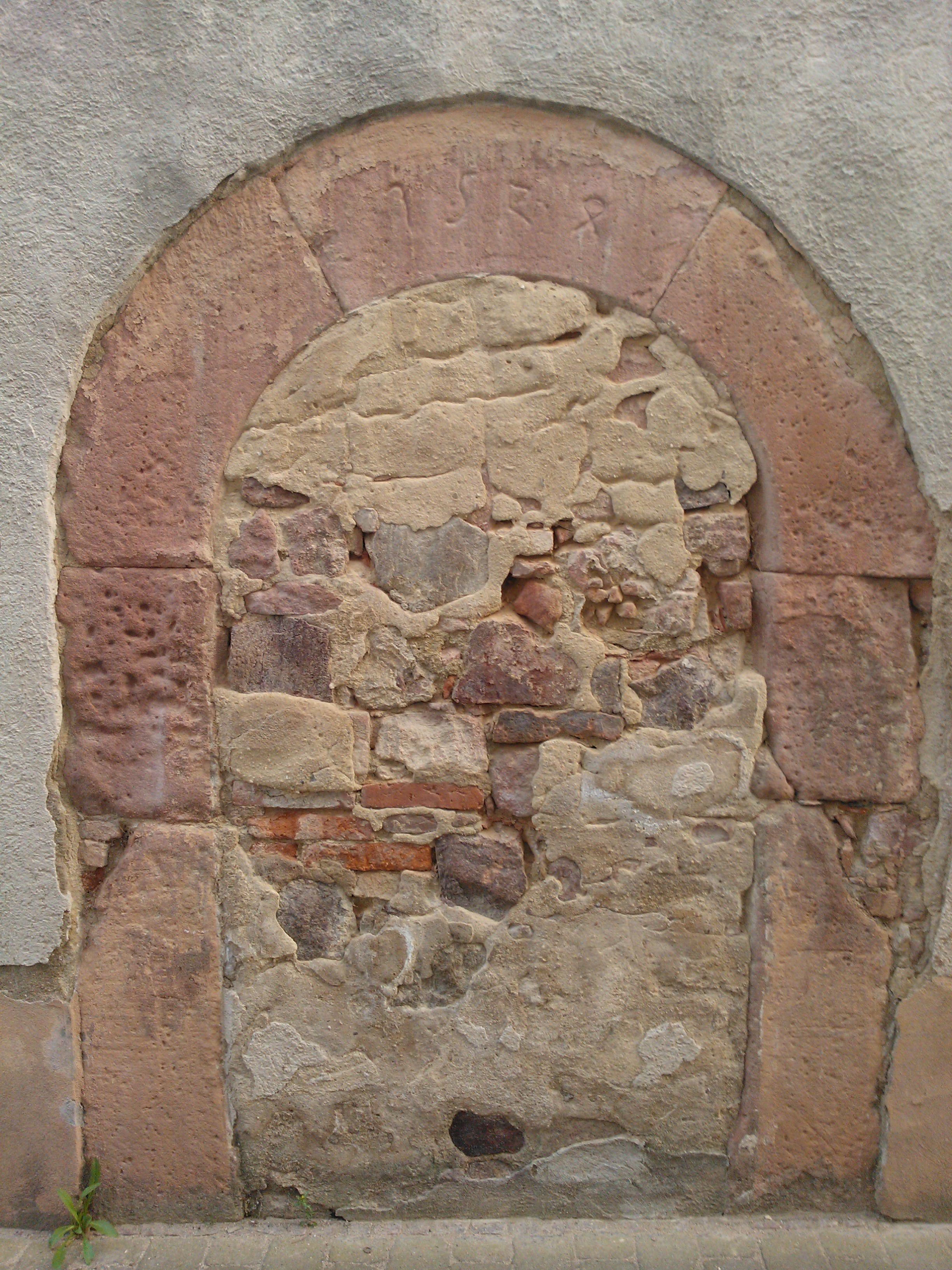 Die Sandsteinpforte an der ummauerten Hofseite an der Brunnengasse des Gans'schen Adelshofes in Groß-Umstadt, Hessen.